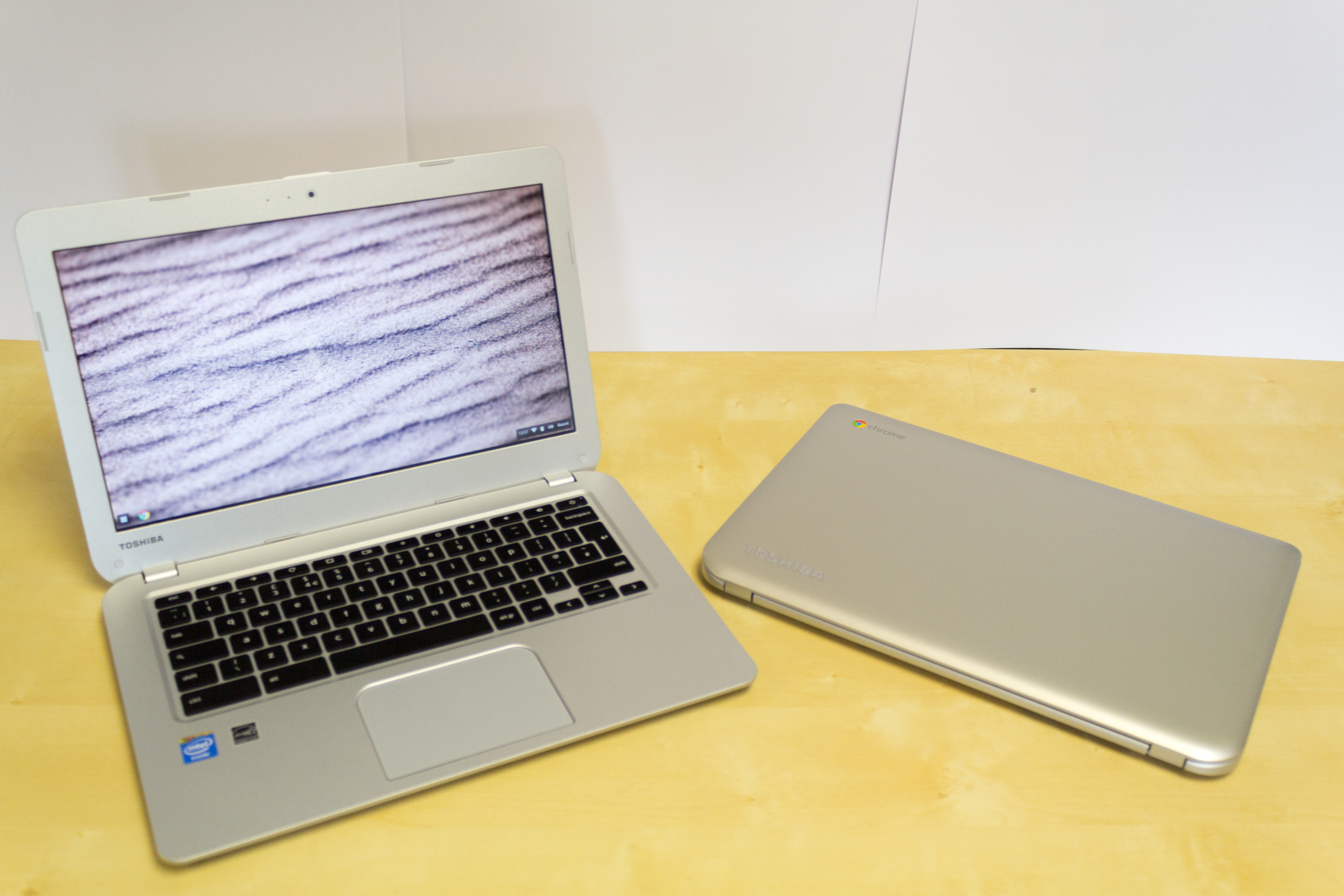 WMUK's Toshiba CB30-102 Chromebook